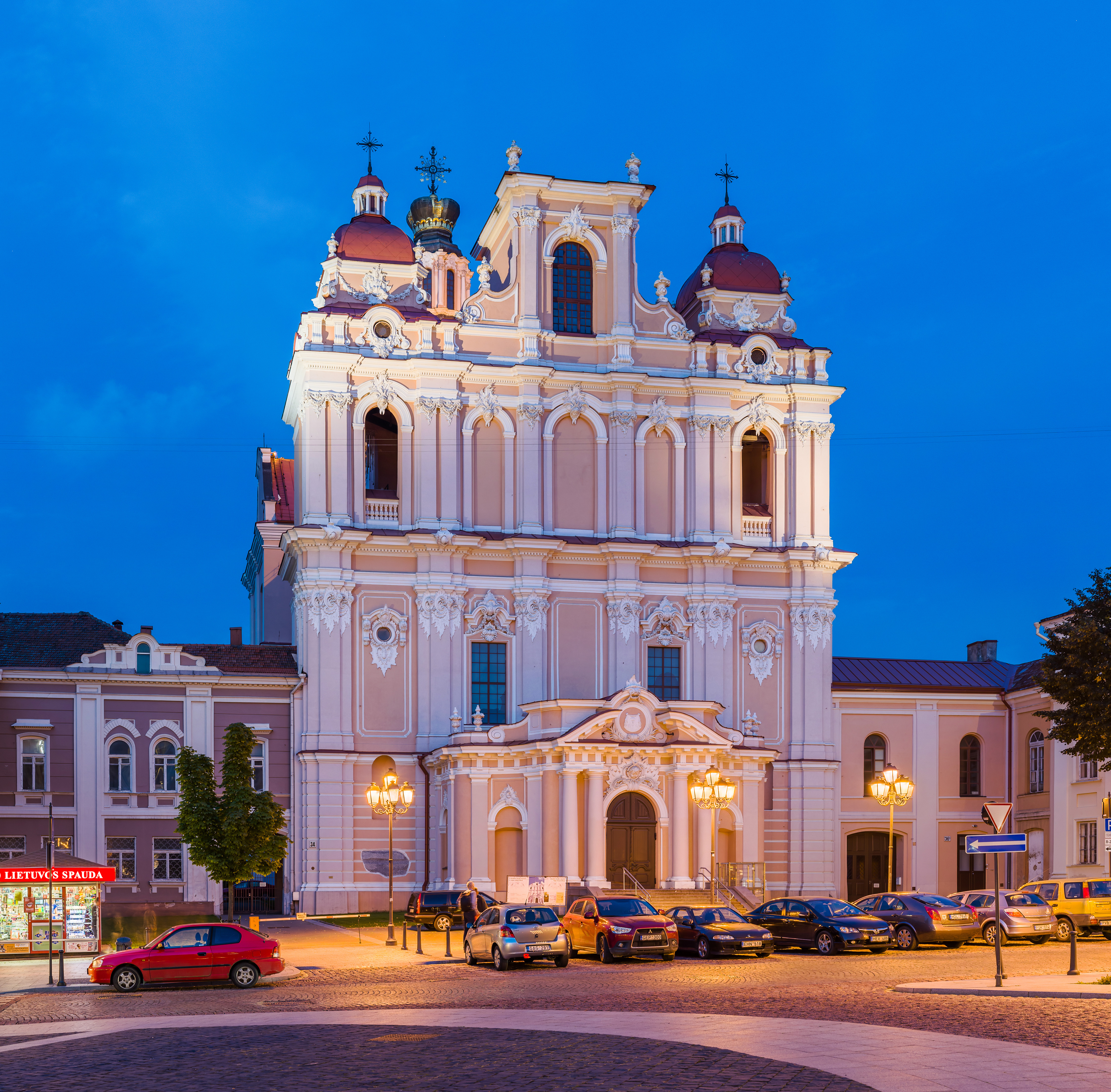 The exterior of St Casimir Church at dusk, in Vilnius, Lithuania.